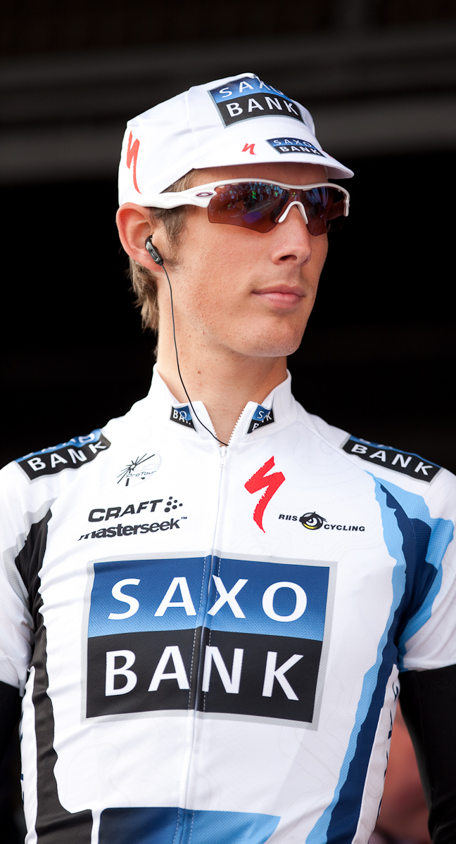 Andy Schleck, Eschborn-Frankfurt City Loop 2009